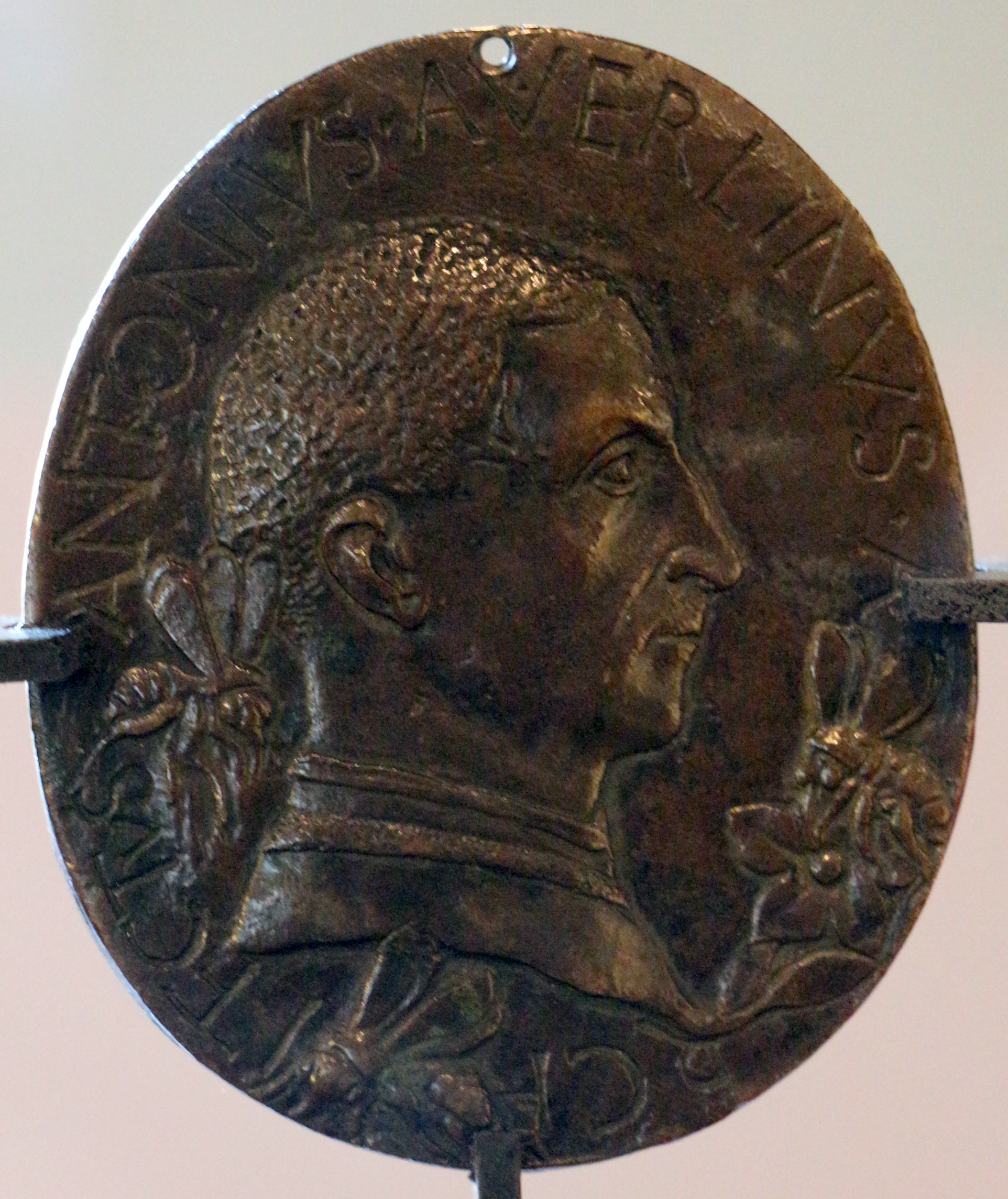 Medagliere del Castello Sforzesco (Milan)